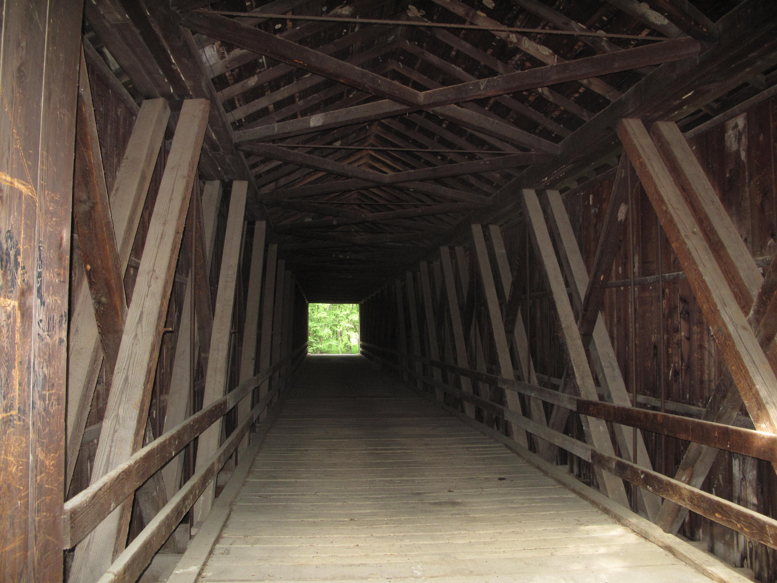 Interior view of Locust Creek Covered Bridge in Linn County, Missouri. Listed on the National Register of Historic Places since 1970, the bridge was constructed in 1868. Photo courtesy of Milanite via Flickr.